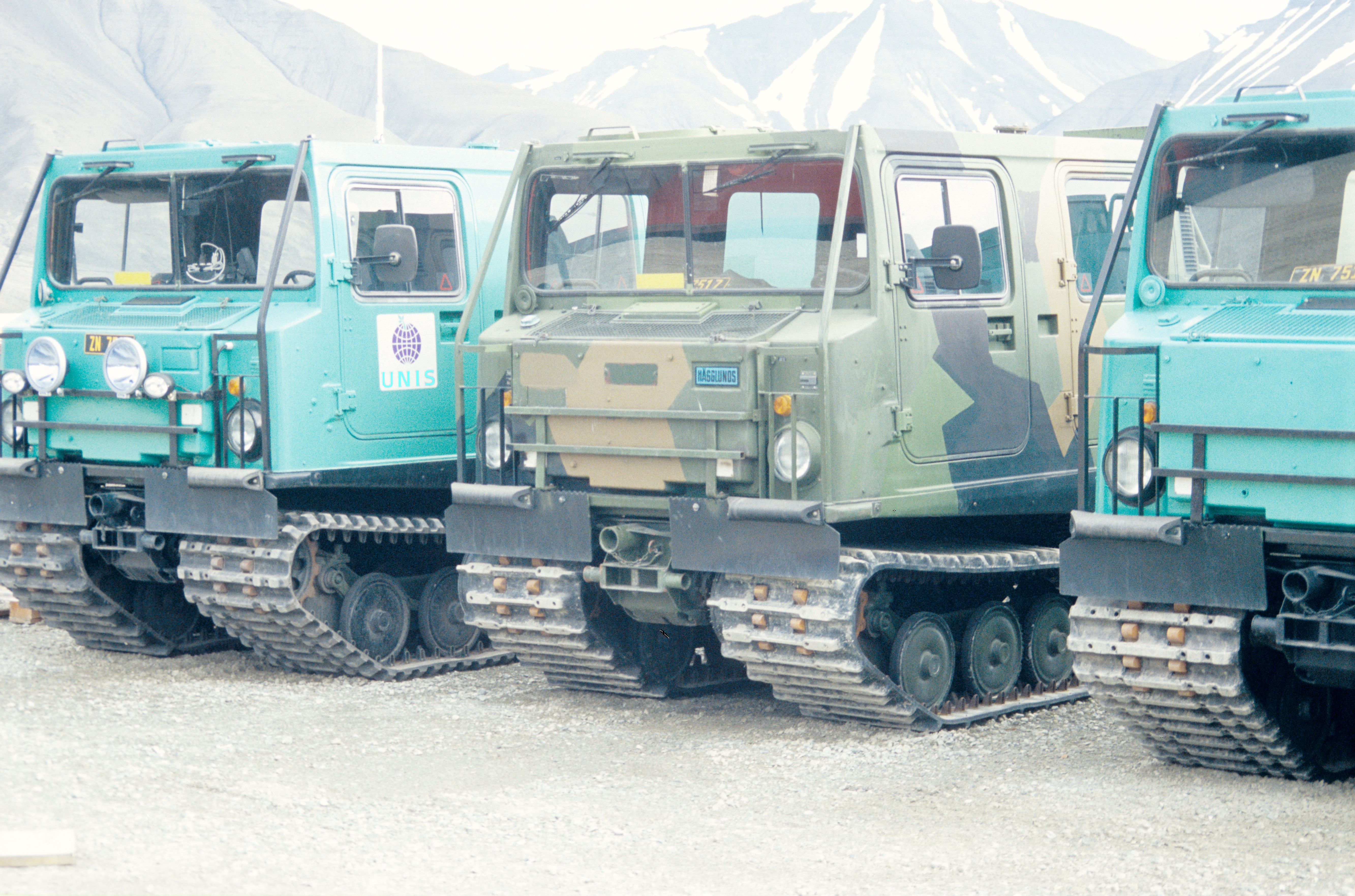 Bandvagn 206 am University Centre in Svalbard